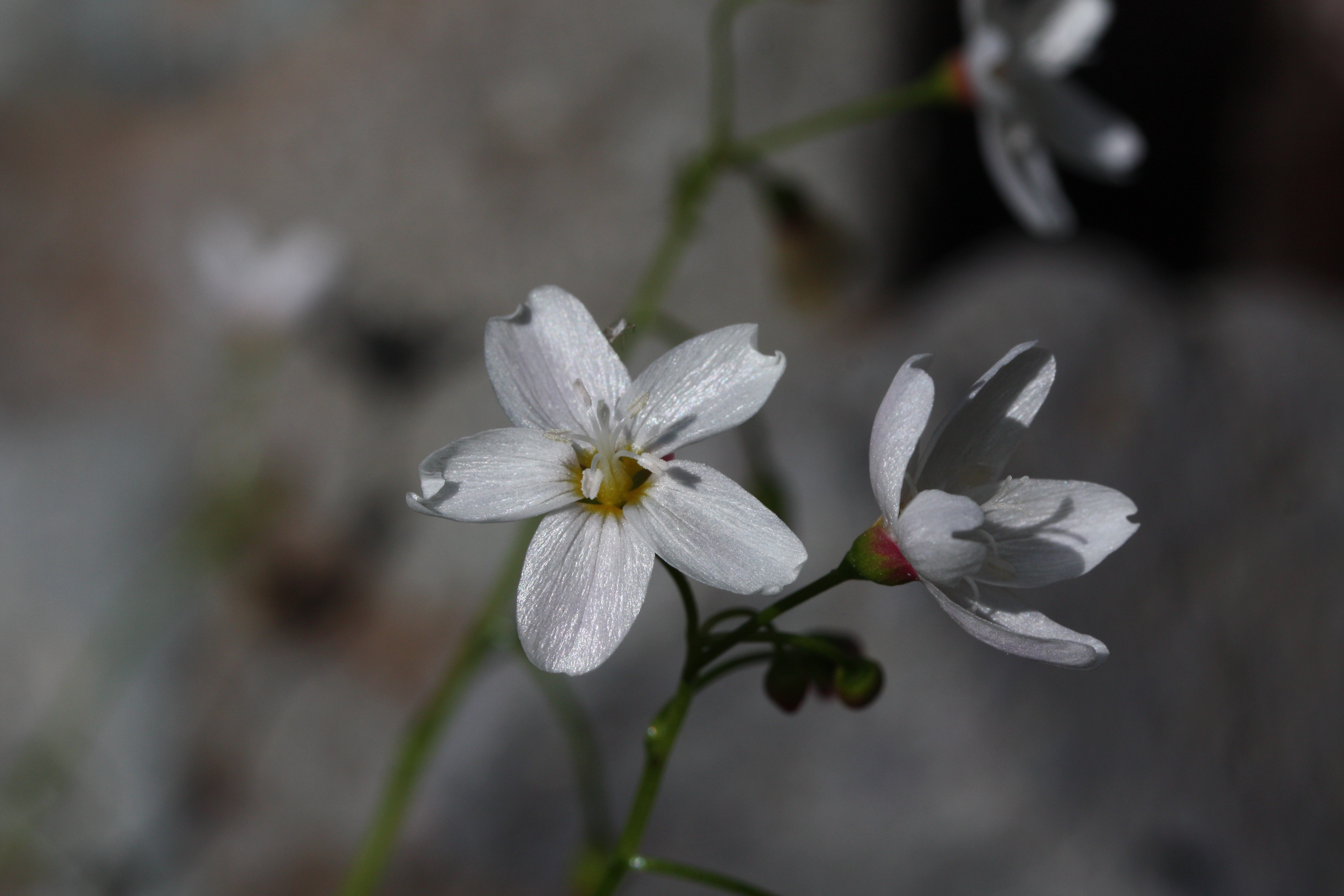 Heart-leaf Springbeauty, Broad-leaf Springbeauty